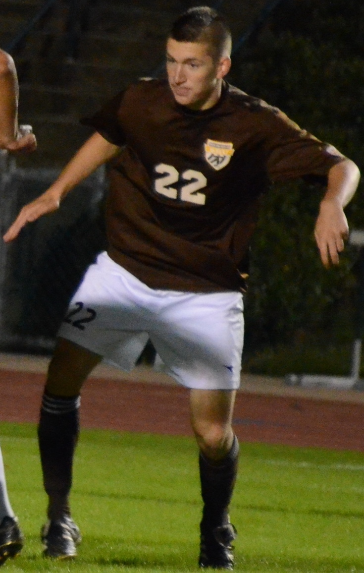 Emmett O'Connor with the St. Bonaventure Bonnies in 2011 against UNC Charlotte